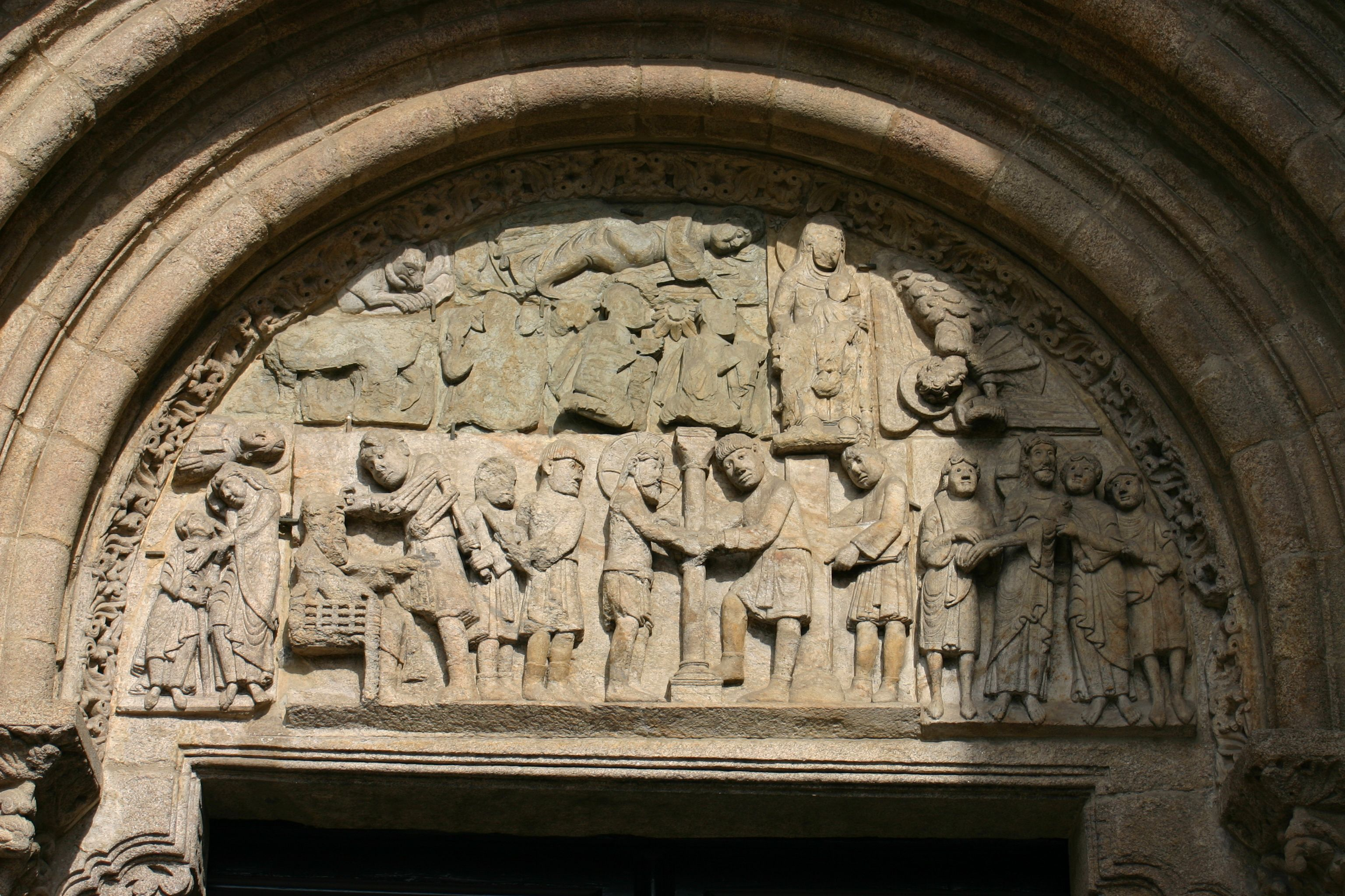 Meridional door detail of the Santiago de Compostela cathedral, Galicia (Spain) Author: User:Yearofthedragon